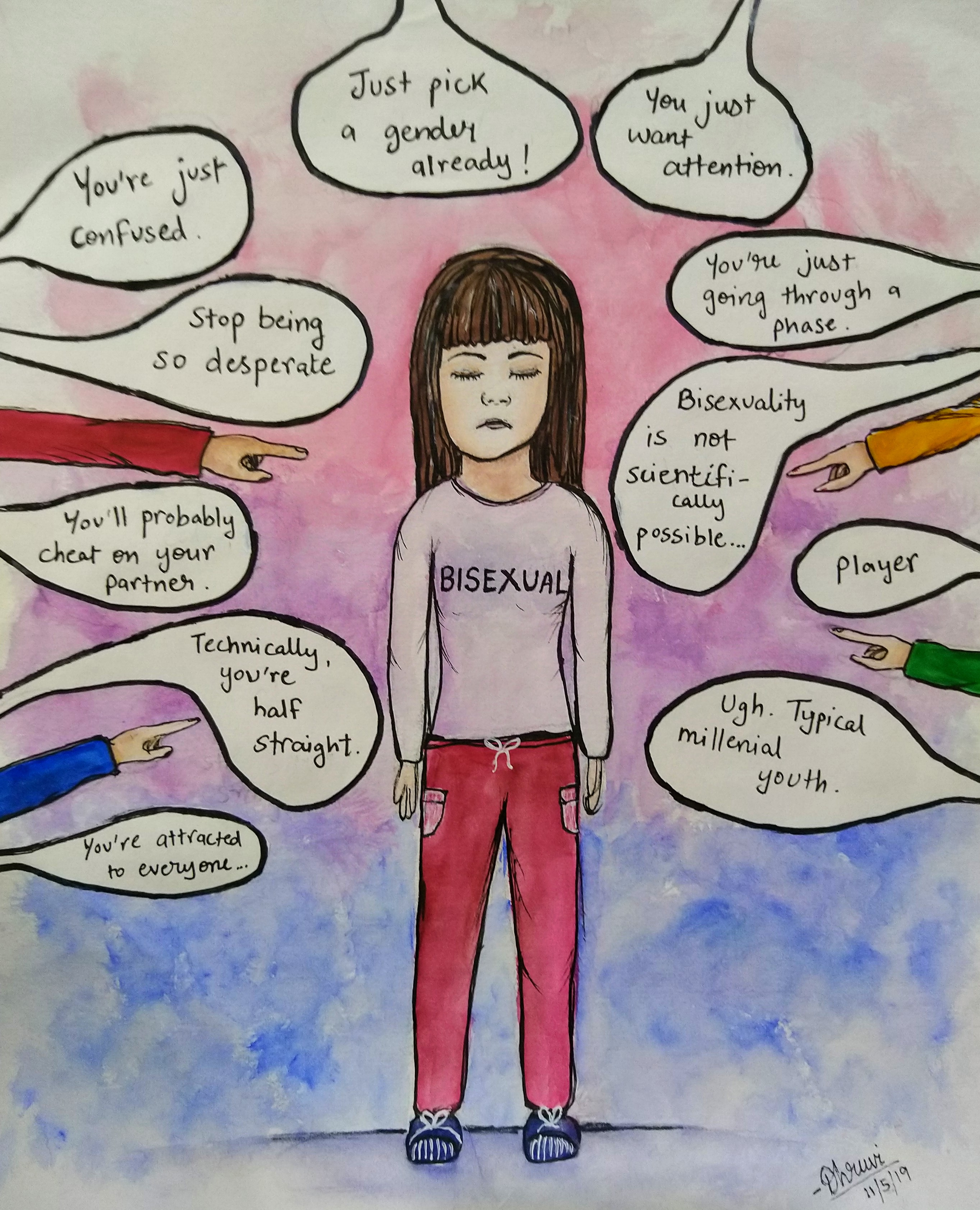 This is an illustration I made for a project. As a closeted bisexual, I have seen and sometimes experienced bias against bisexuals. People need to understand that bisexuality is a completely natural sexuality just like homosexuals, asexuals, etc. They are often told that they're 'half straight' or seen as 'players', which is wrong and needs to stop.Location: India, PuneEvent type: Discrimination against bisexualityDate or year: 2019